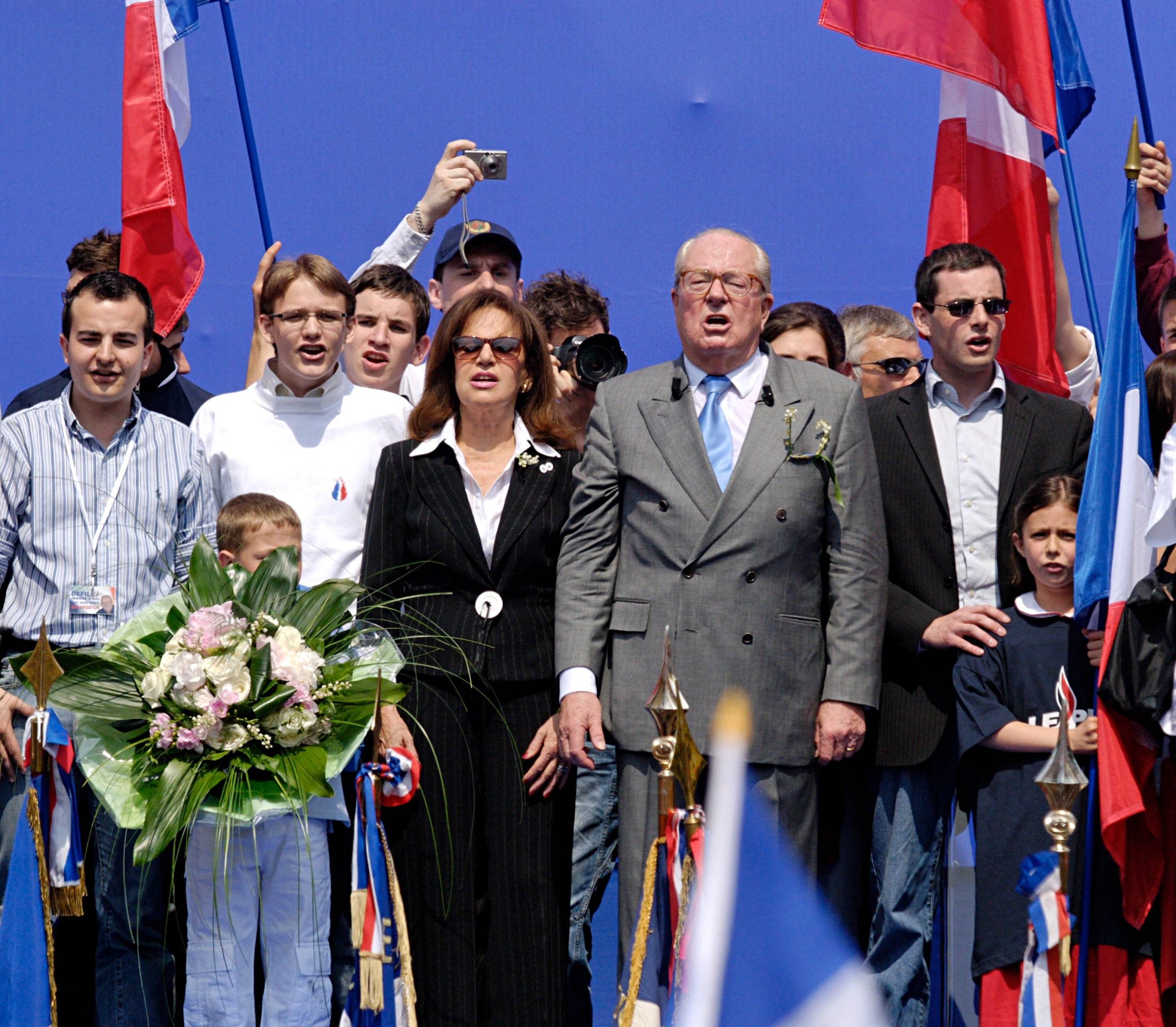 Jean-Marie Le Pen (blue tie), his wife (on his left) and his supporters sing the French national anthem at the end of his National Front party's annual tribute to Joan of Arc in Paris.